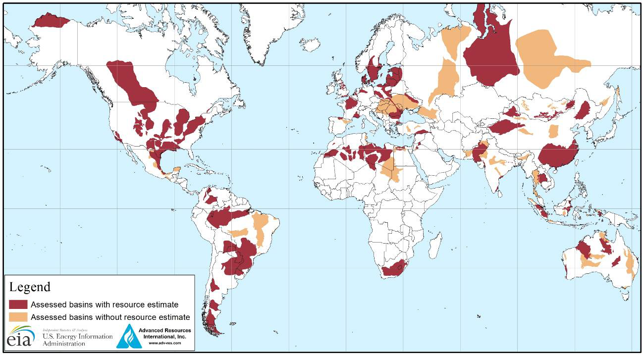 Original figure caption: Map of basins with assessed shale oil and shale gas formations, as of May 2013